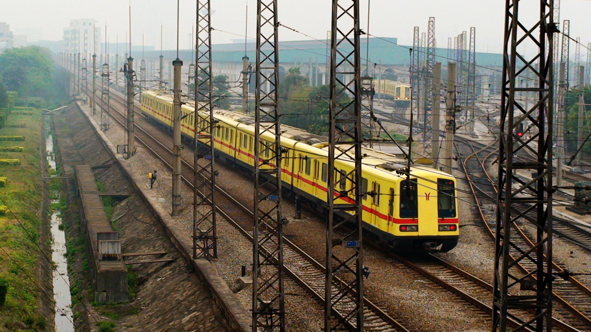 ADtranz-Siemons train of Guangzhou Metro Line 1, leaving from Kengkou Station